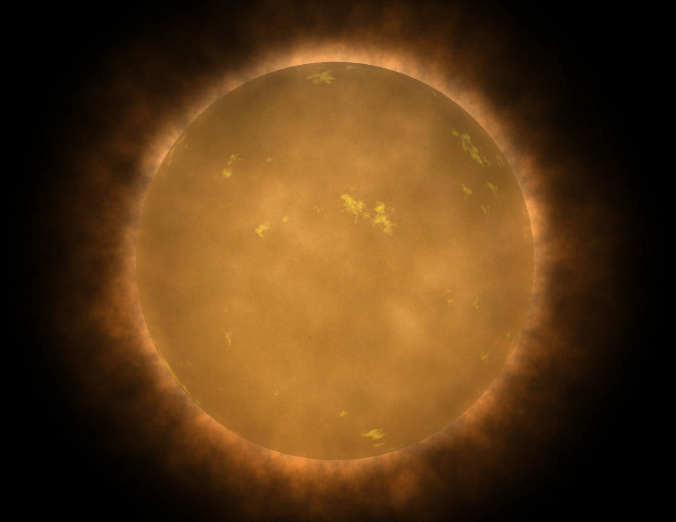 Artist's conception of star SO25300.5+165258 which is a red dwarf about 7.8 light years from the sun